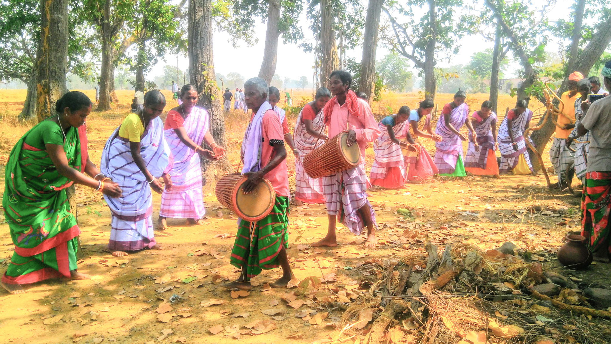 Baha parab is the festival of santhal people. This photo has been taken in the country: India